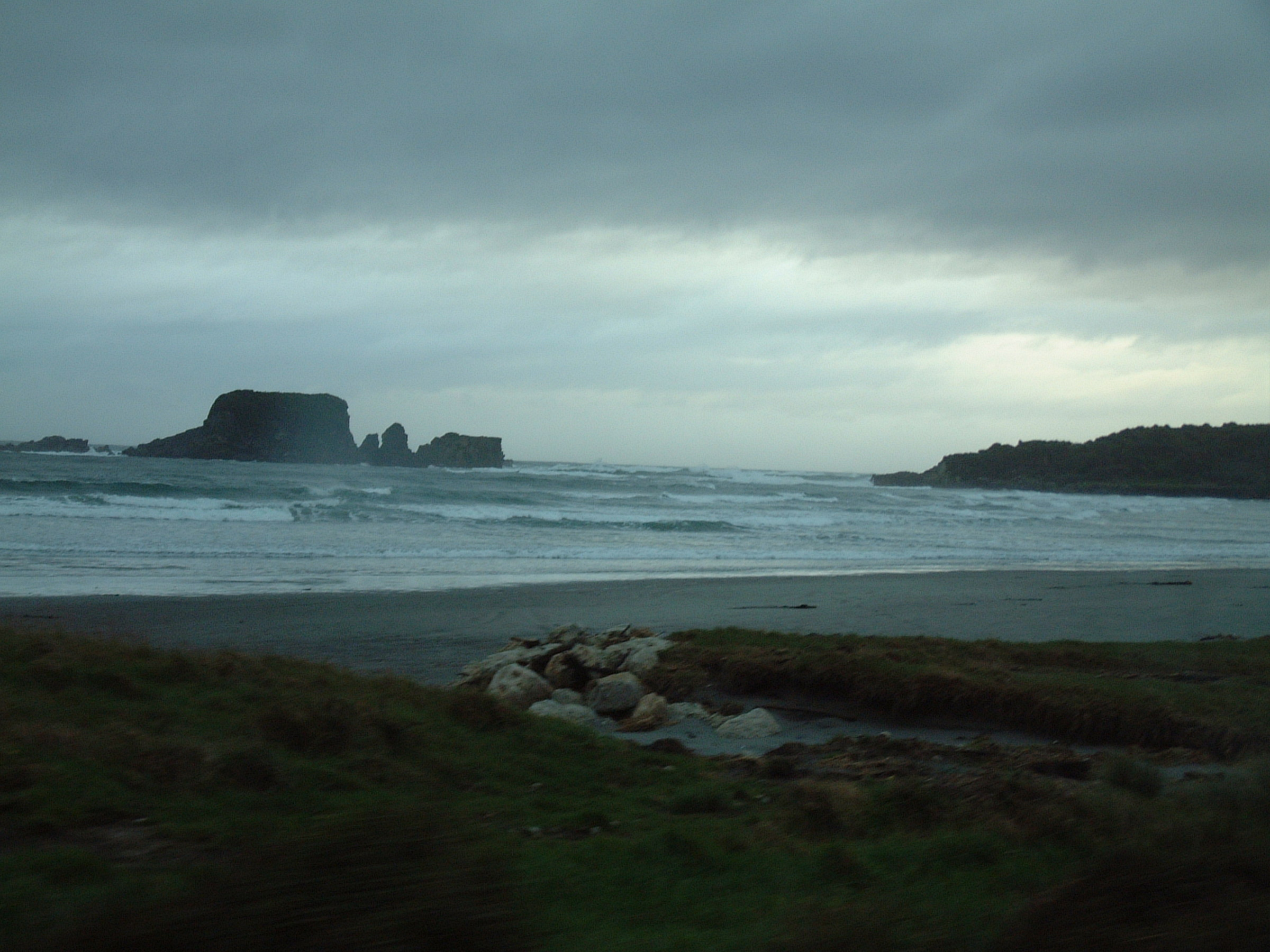 Looking out on the Tasman Sea